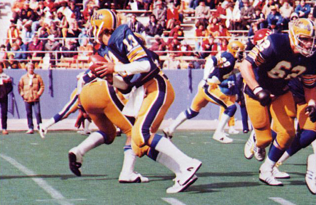 Dan Marino quarterbacks the Pitt Panthers of the University of Pittsburgh in a football game at Pitt Stadium against the Cincinnati Bearcats on October 13, 1979. Pitt won the game 35-0.